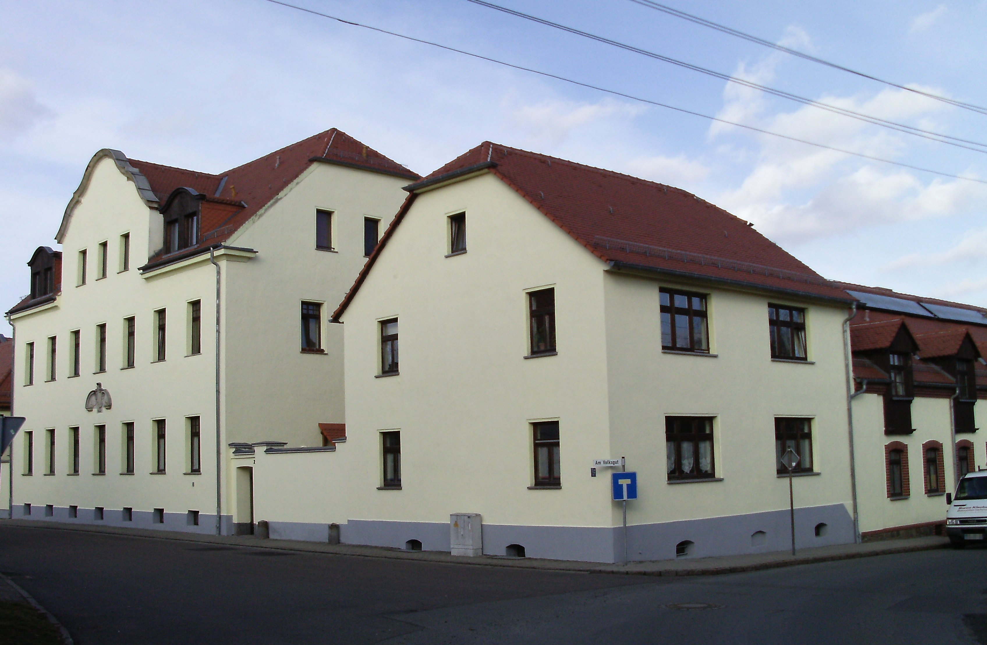 Grassdorf Estate in Taucha (Nordsachsen district, Saxony)